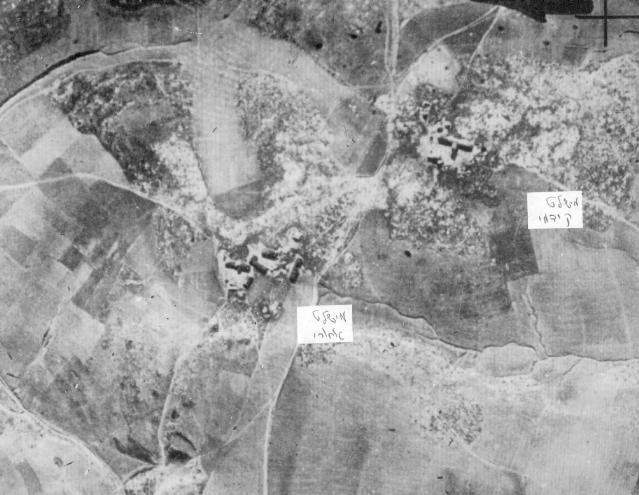 Khirbet Mahaz, Negev. 1945